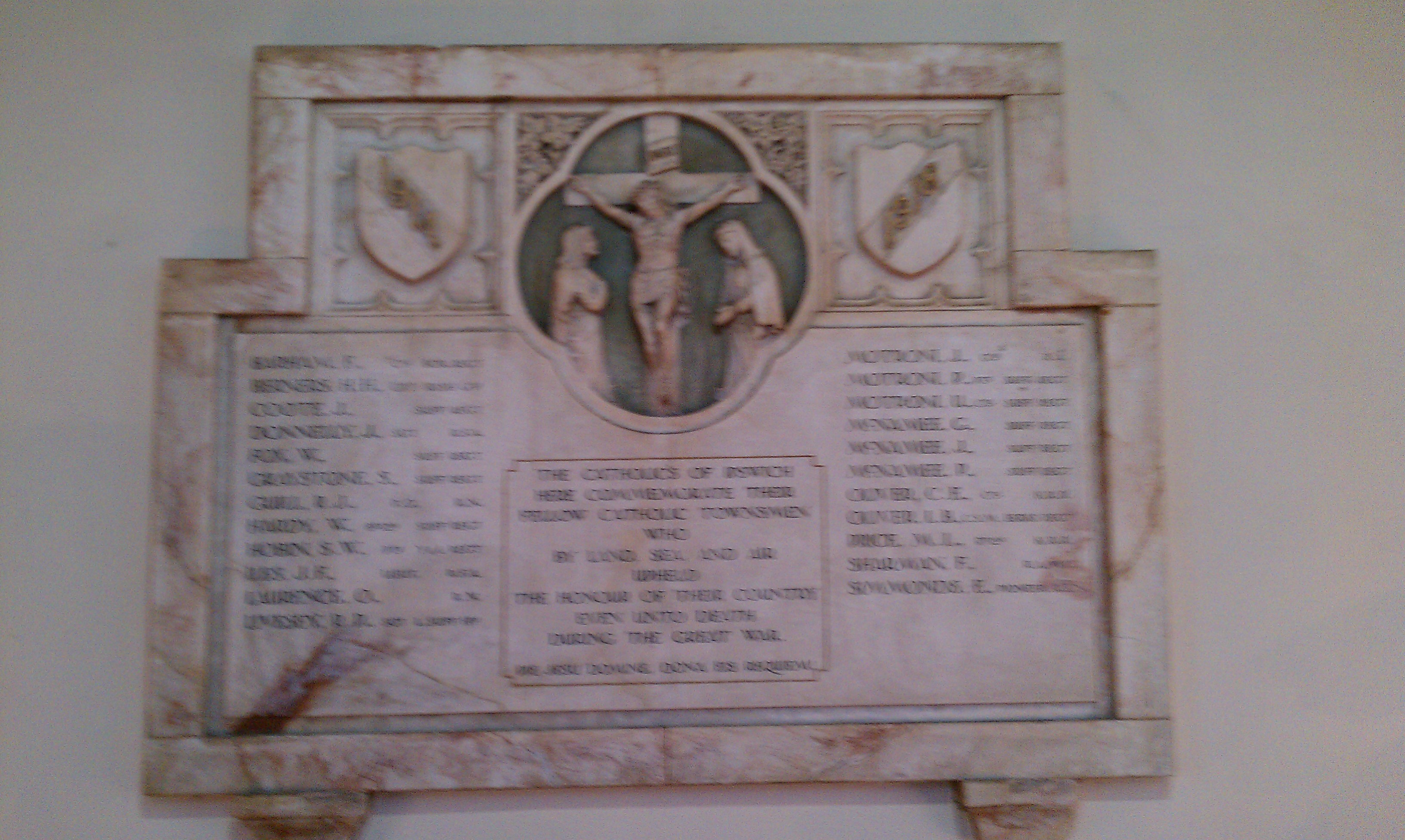 A war memorial dedicated by Ipswich's Catholic commemorating the Catholics from Ipswich who died in the First World War.